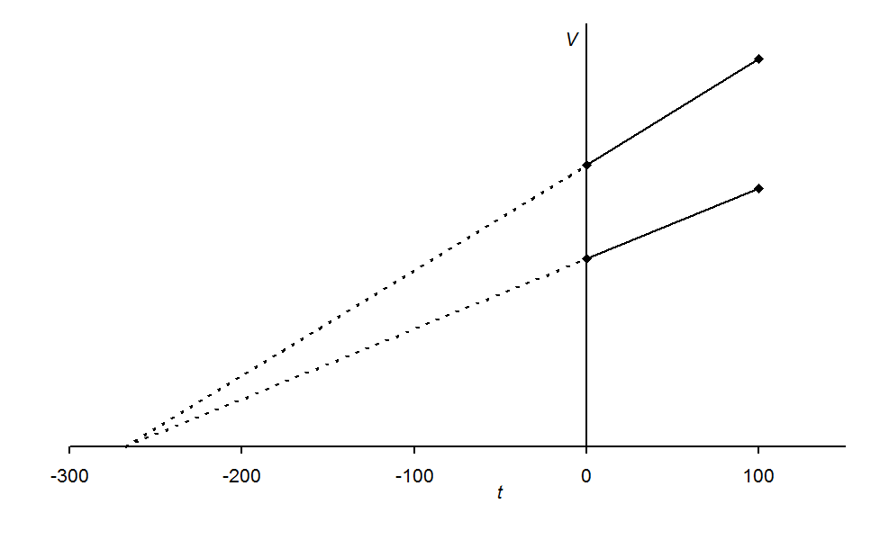 The relationship between volume and temperature for two different gas samples, according to Charles's law as determined by Joseph Louis Gay-Lussac (1802). The volumes are measured at 0 ºC and 100 ºC; the proportional increase in volume is the same for all gases, and all lines cut the x-axis at the same point.